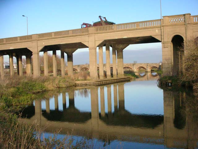 Irthlingborough Viaduct. The Irthlingborough Viaduct carries the A6 over the River Nene. It was built in 1936 because the foundations of the old 13th century bridge (seen in the background) were too unstable for motor traffic.